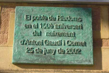 This is the plaque that was placed in the "Mas de la Calderera", in Riudoms, the house where the architect Antoni Gaudí i Cornet was born on the occasion of 150 years of his birth.